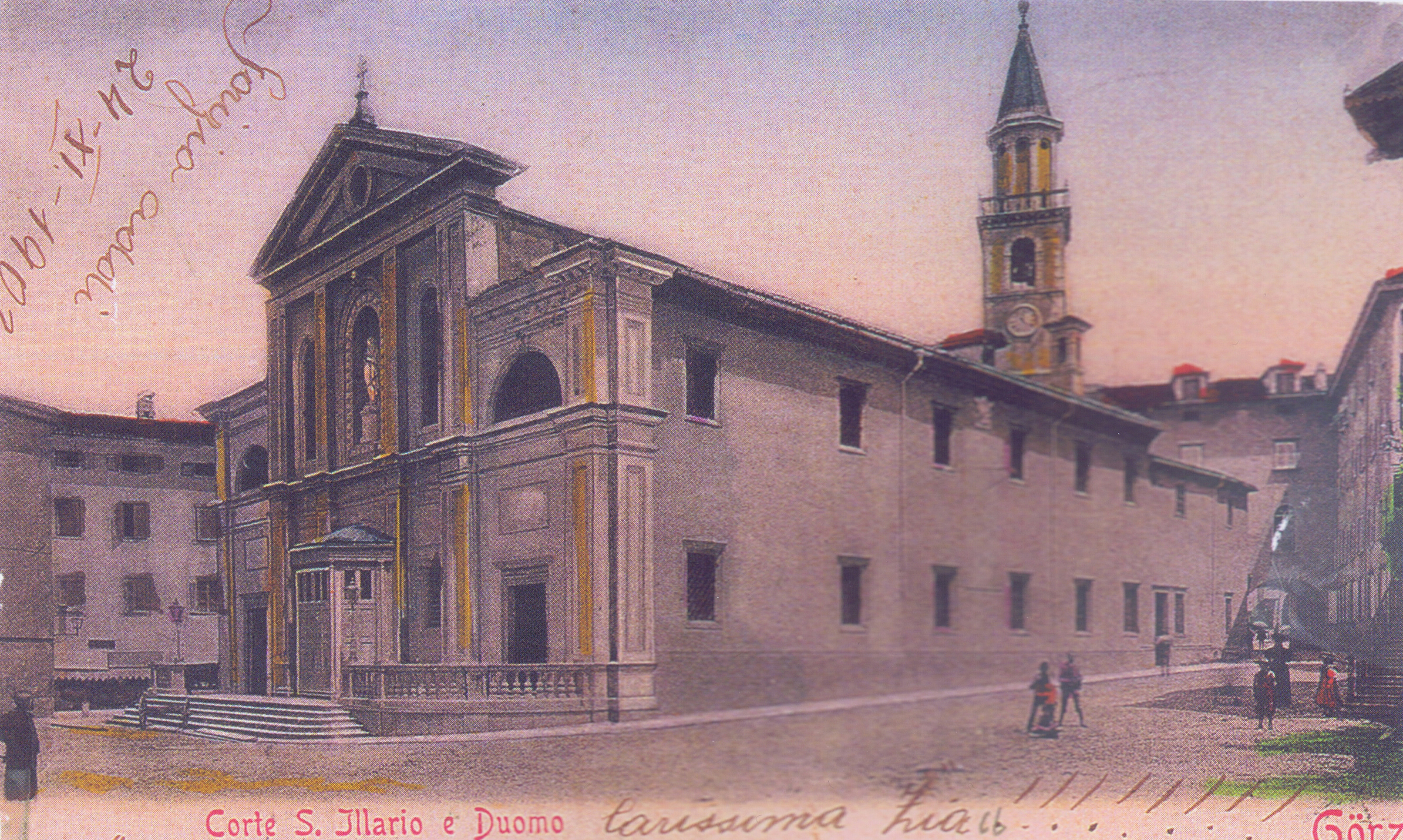 Churc "Duomo di Gorizia", Italy